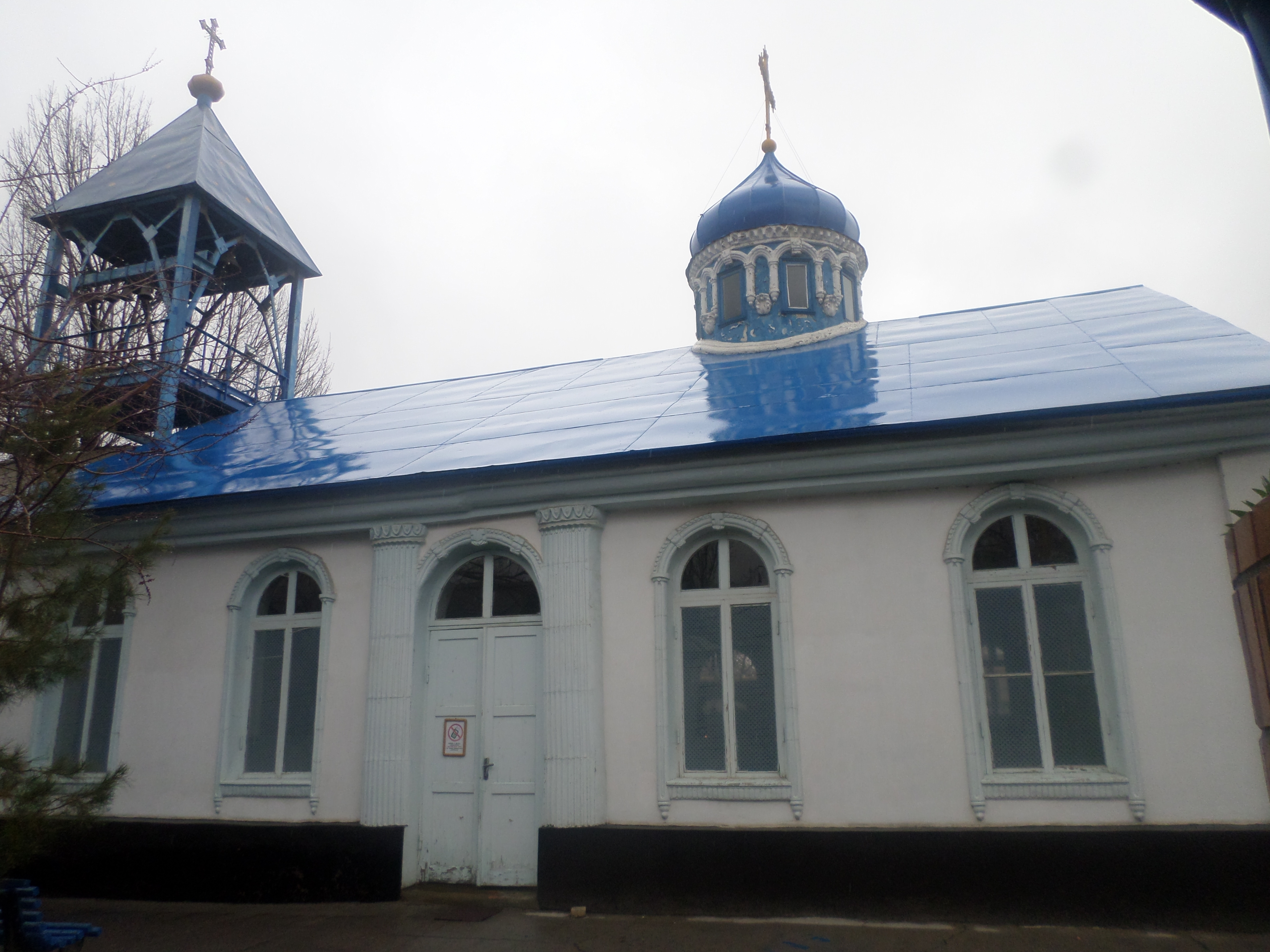 Church in Olmaliq